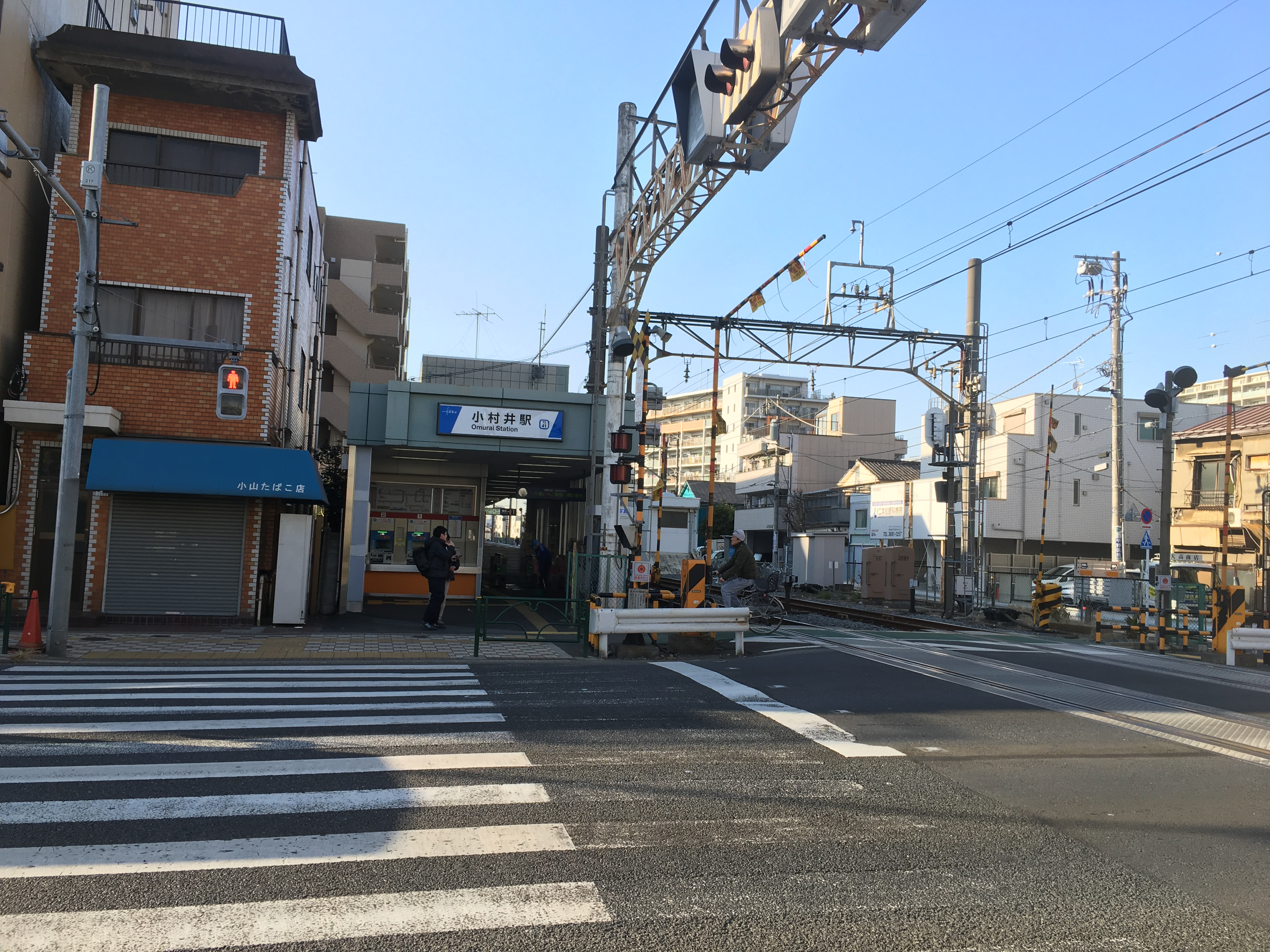 小村井駅 (Omurai Station)